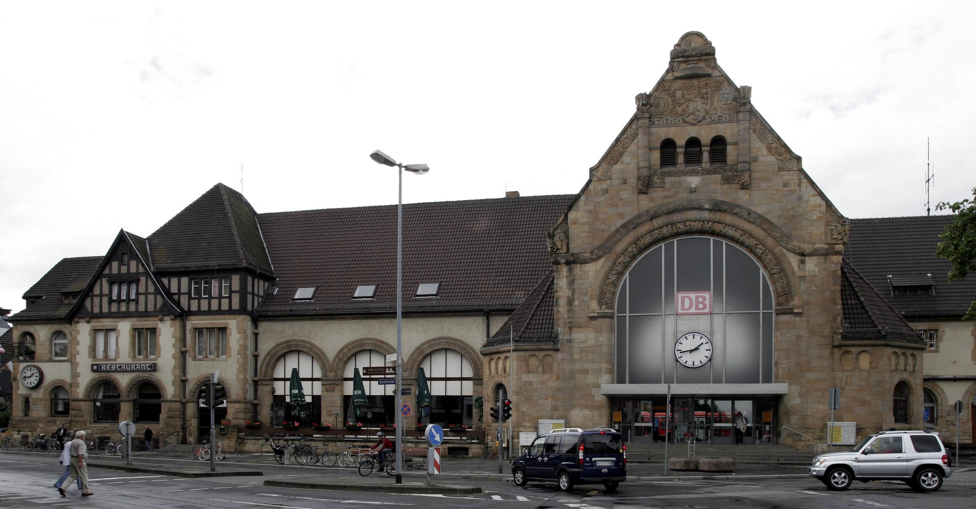 Railway-station "Worms Hauptbahnhof" in Worms (Germany)